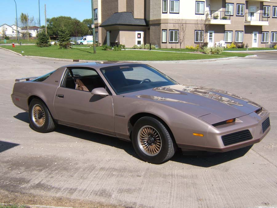 This is a 1983 Pontiac Firebird S/E. This is my own work, and all rights are released.